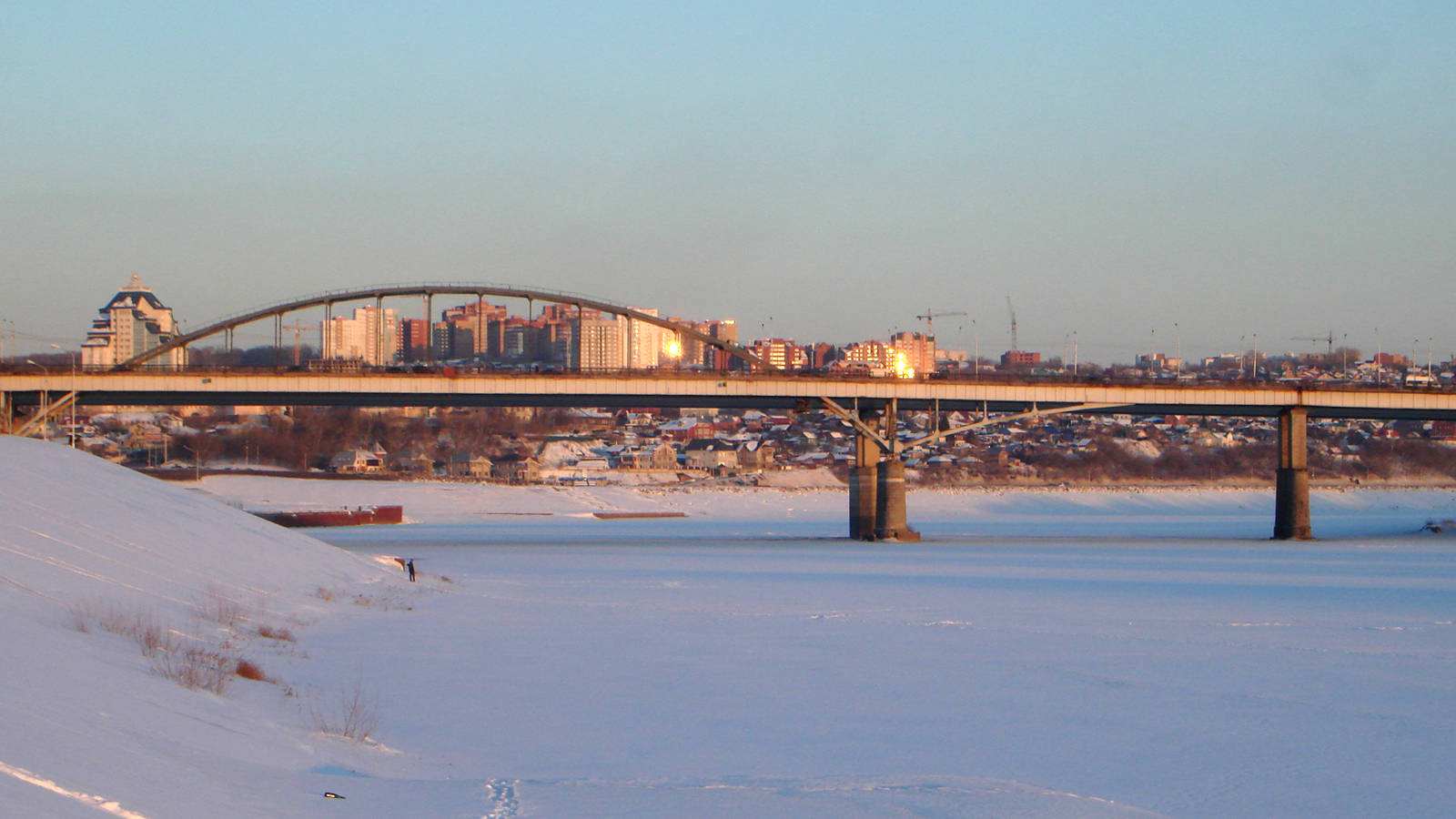 Ufa at sunset sightseeing.